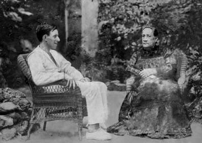 Alain Gerbault visiting Queen Marau of Tahiti.